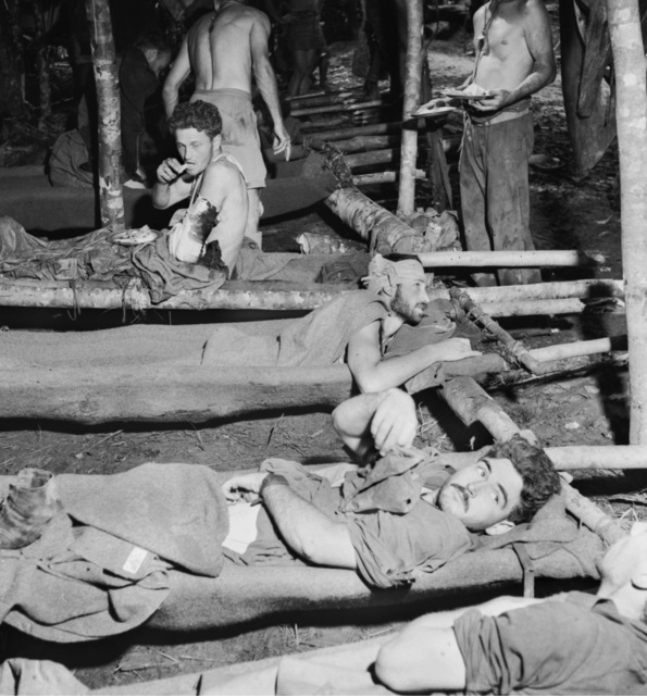 Wounded Australians at a dressing station near Oivi, Papua New Guinea, November 1942